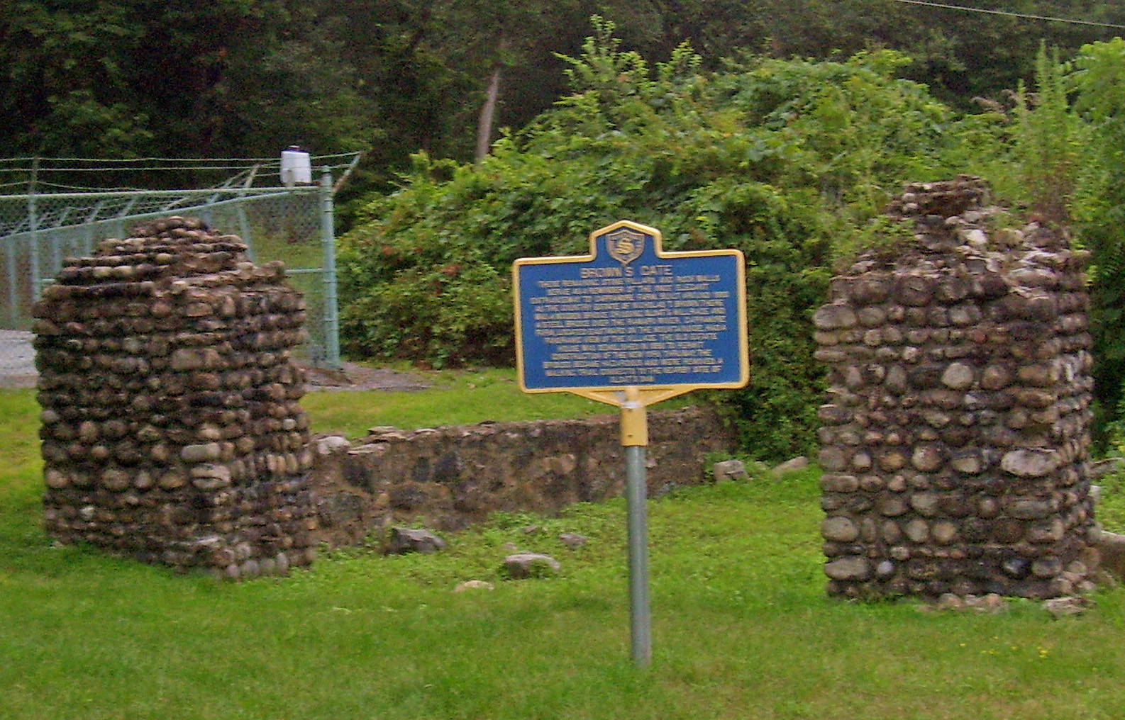 Gateposts from former Nicholas Brown estate in Sloatsburg, NY, USA. Contributing objects to the Sloat's Dam and Mill Pond listing on the National Register of Historic Places (Text on sign is not a copyright violation; it's illegible here)